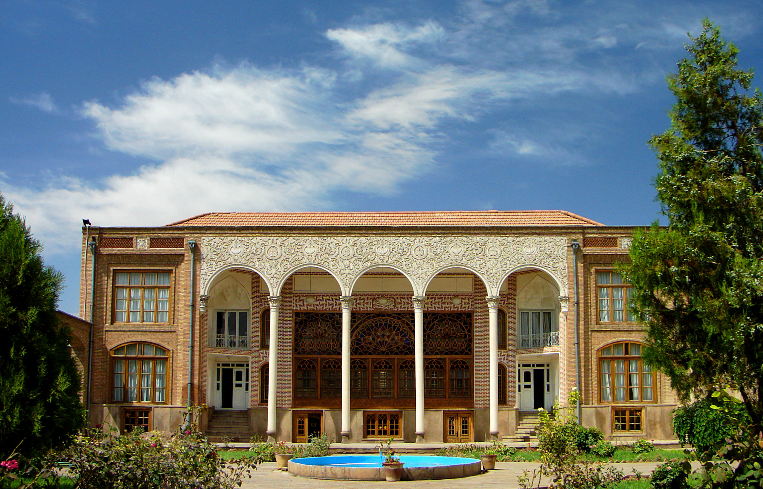 Behnam House in Tabriz, Iran.